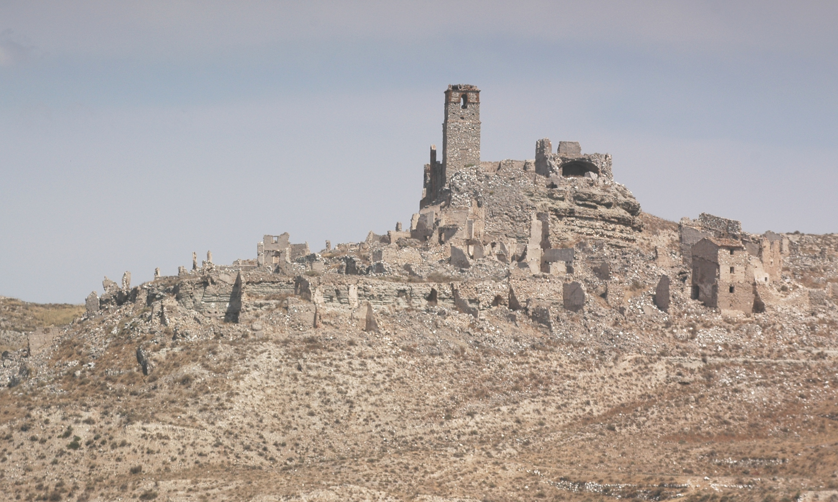 General view of the ruins of the old village of Rodén, Fuentes del Ebro municipality, province of Zaragoza, Spain